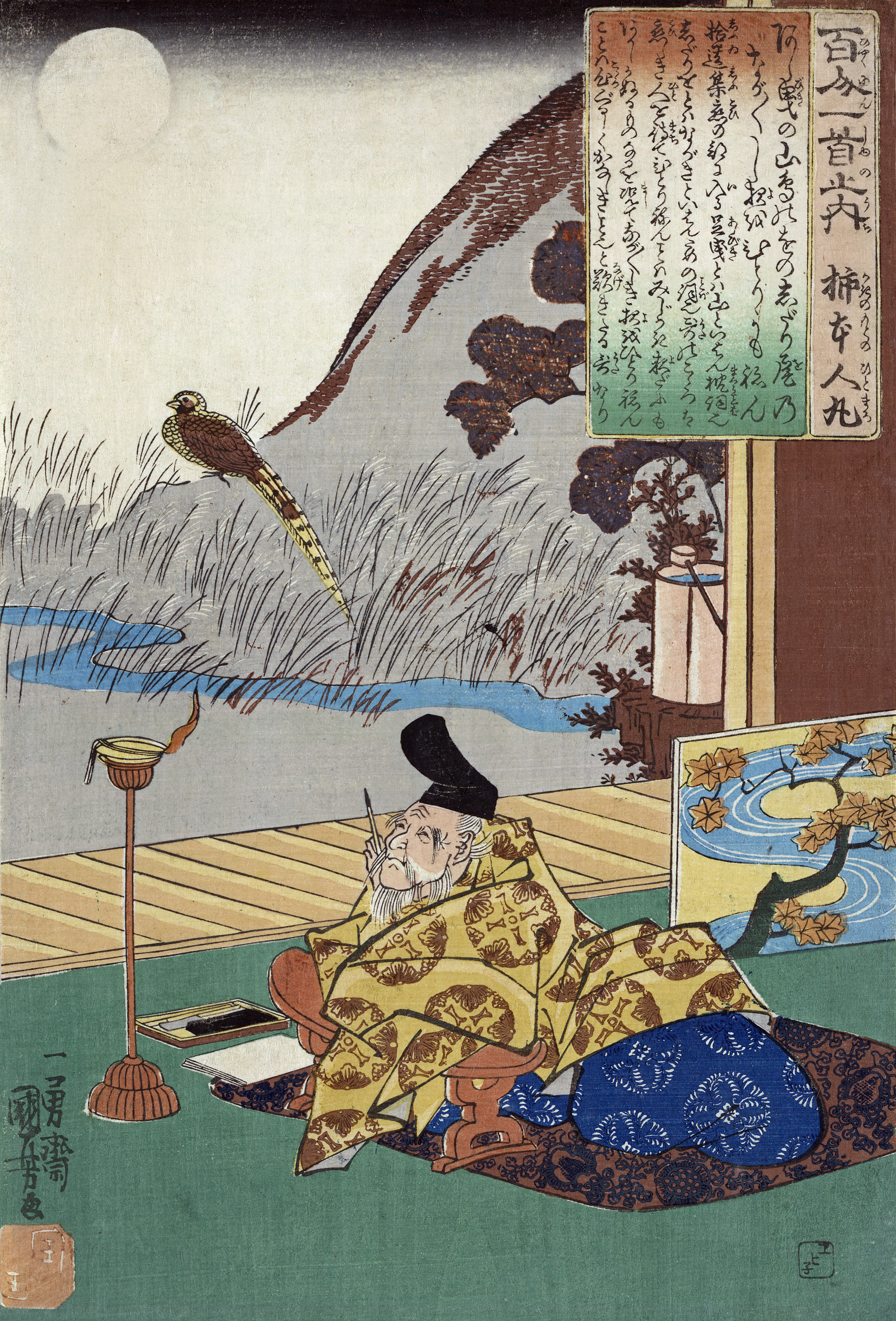 Kakinomoto no hitomaro, 1 print : woodcut, color ; 34.3 x 23.1 cm.